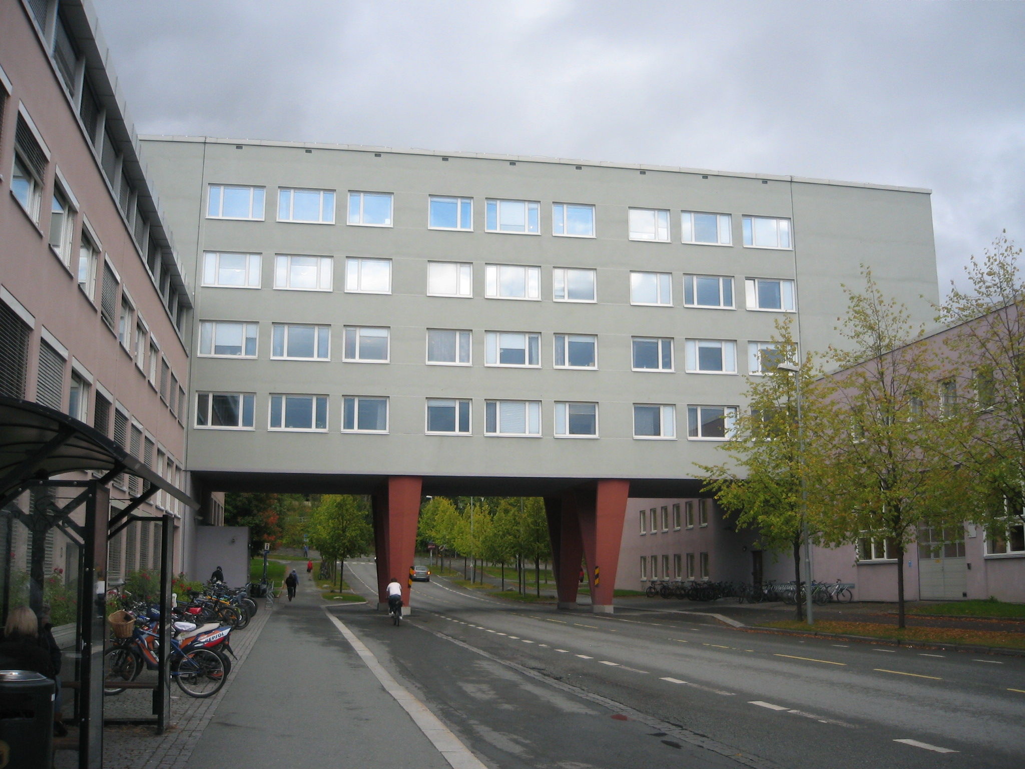 "The pearly gates" - a nickname for this building at the entrance to campus NTNU Gløshaugen, Trondheim from south-east. Architects: Pran & Torgersen. Colours: Bruno Lundström